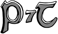 Logo of defunct Irish government Department of Posts & Telegraphs that was wound up at the end of 1983 with the establishment of two semi-state organisations, An Post and Telecom Éireann, on January 4, 1984